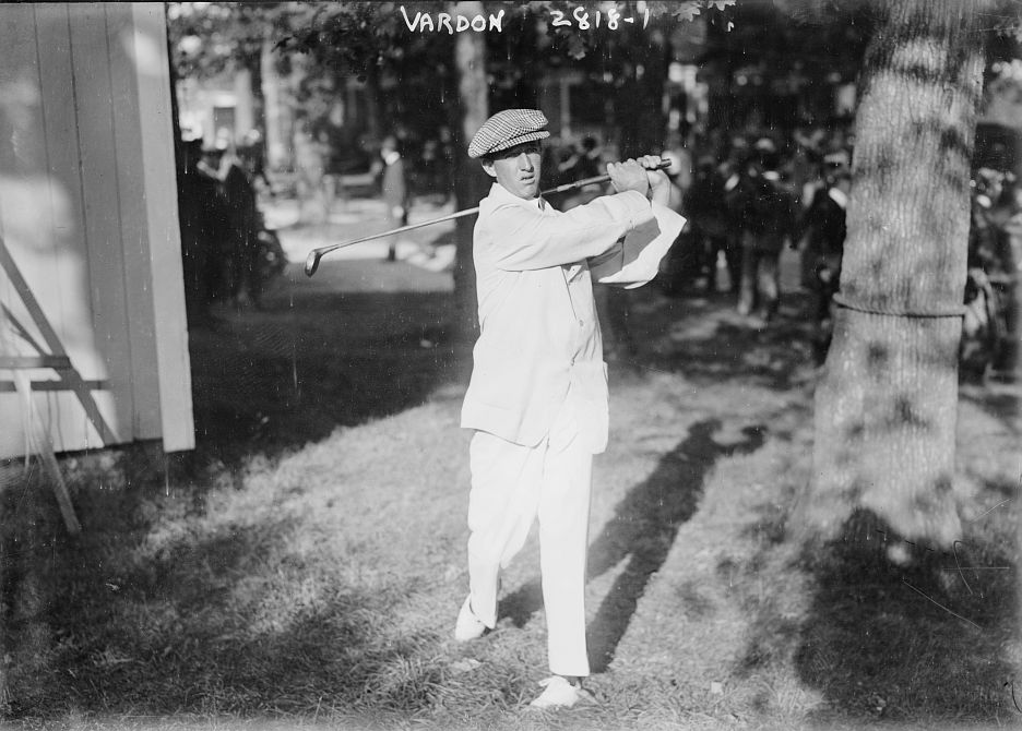 Francis Ouimet incorrectly identified as Harry Vardon